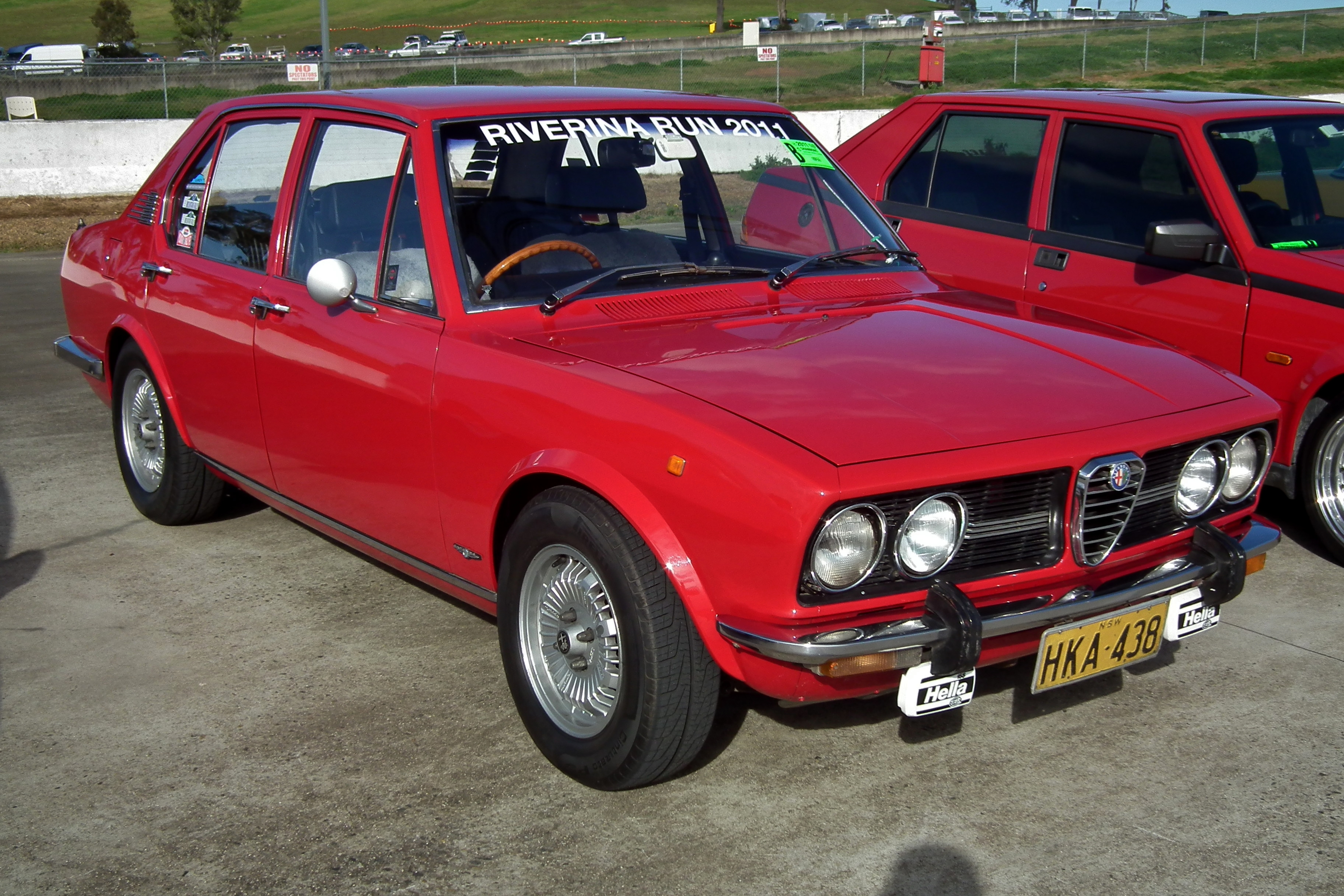 1975 Alfa Romeo Alfetta sedan. Taken at Shannon's Eastern Creek Classic 2011, held at Eastern Creek Raceway Sydney.